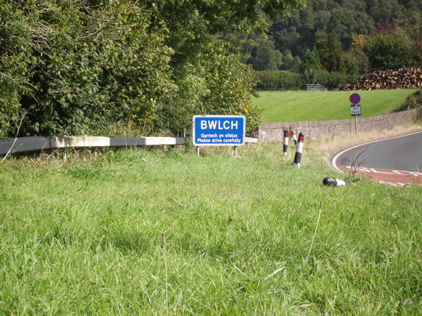 Bwlch: roadside at the western entrance to the village (The person who knocked the bollard over obviously hadn't read the sign...)